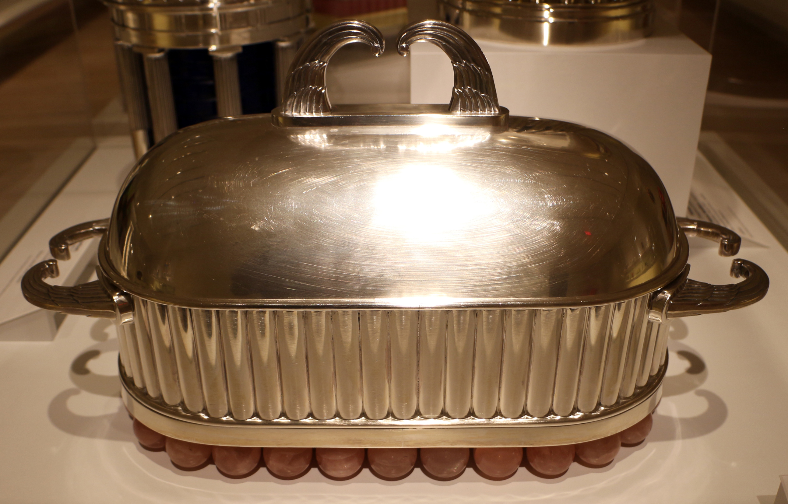 Metalware in the Indianapolis Museum of Art